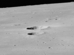 Oblique view of Bessarion crater (larger of the two), on the moon.